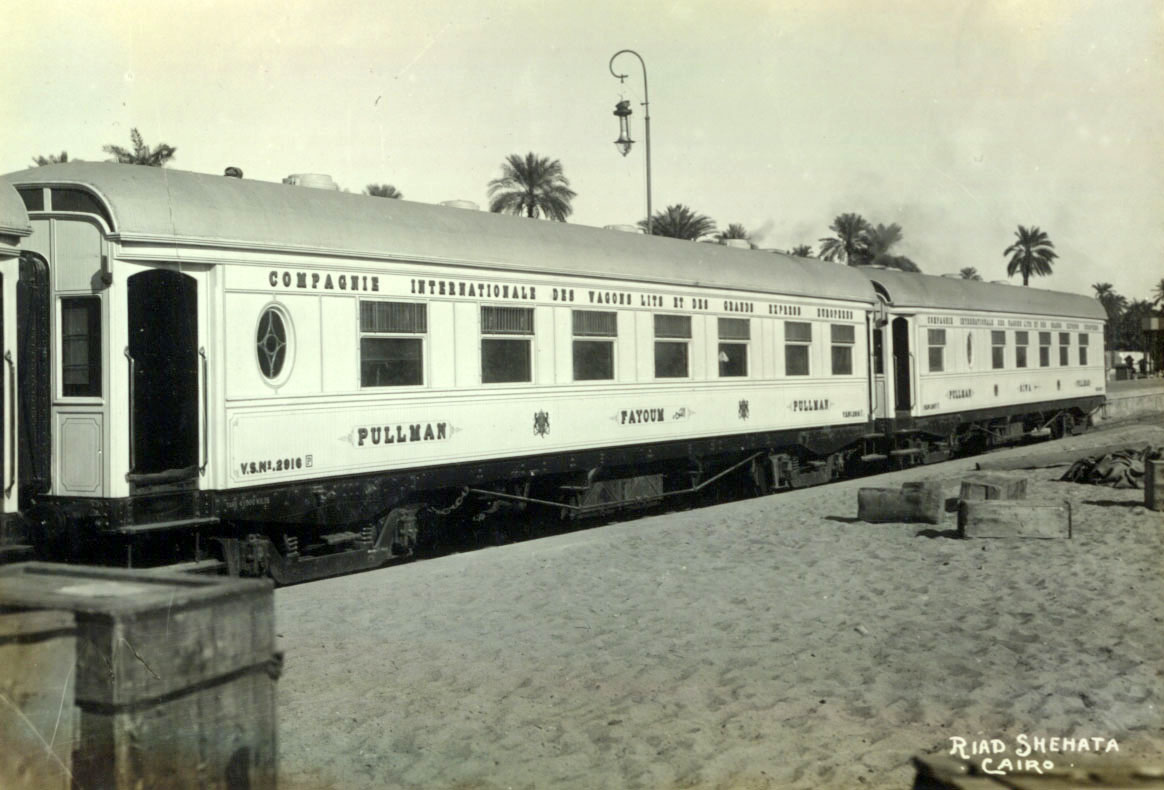 Opening ceremony of the Luxor-Aswan rail line 1926